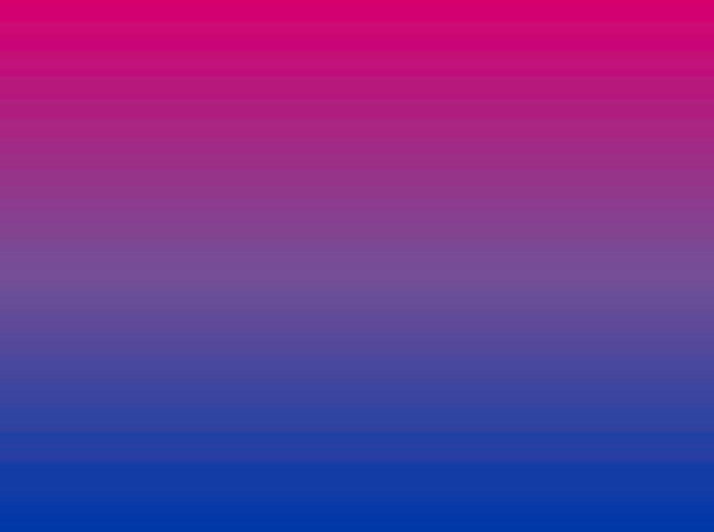 variation of Bisexual pride flag with discrete stripes replaced by quasi-gradients